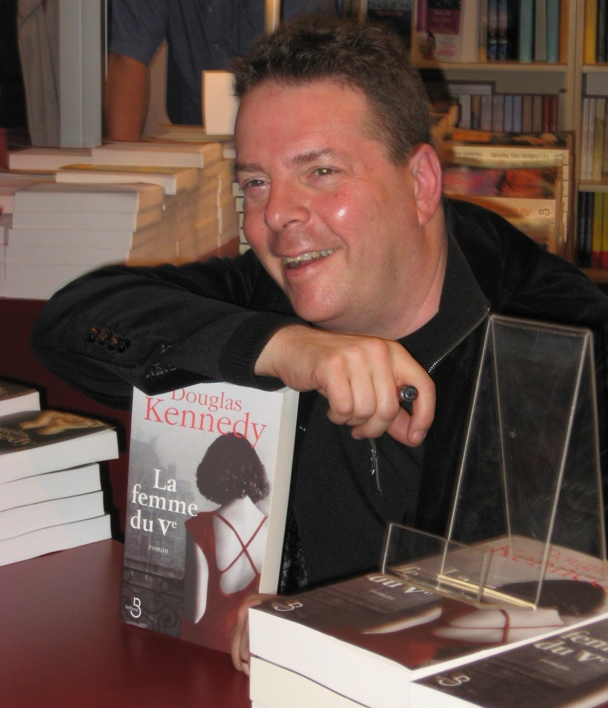 Douglas Kennedy by Jean-Marie David